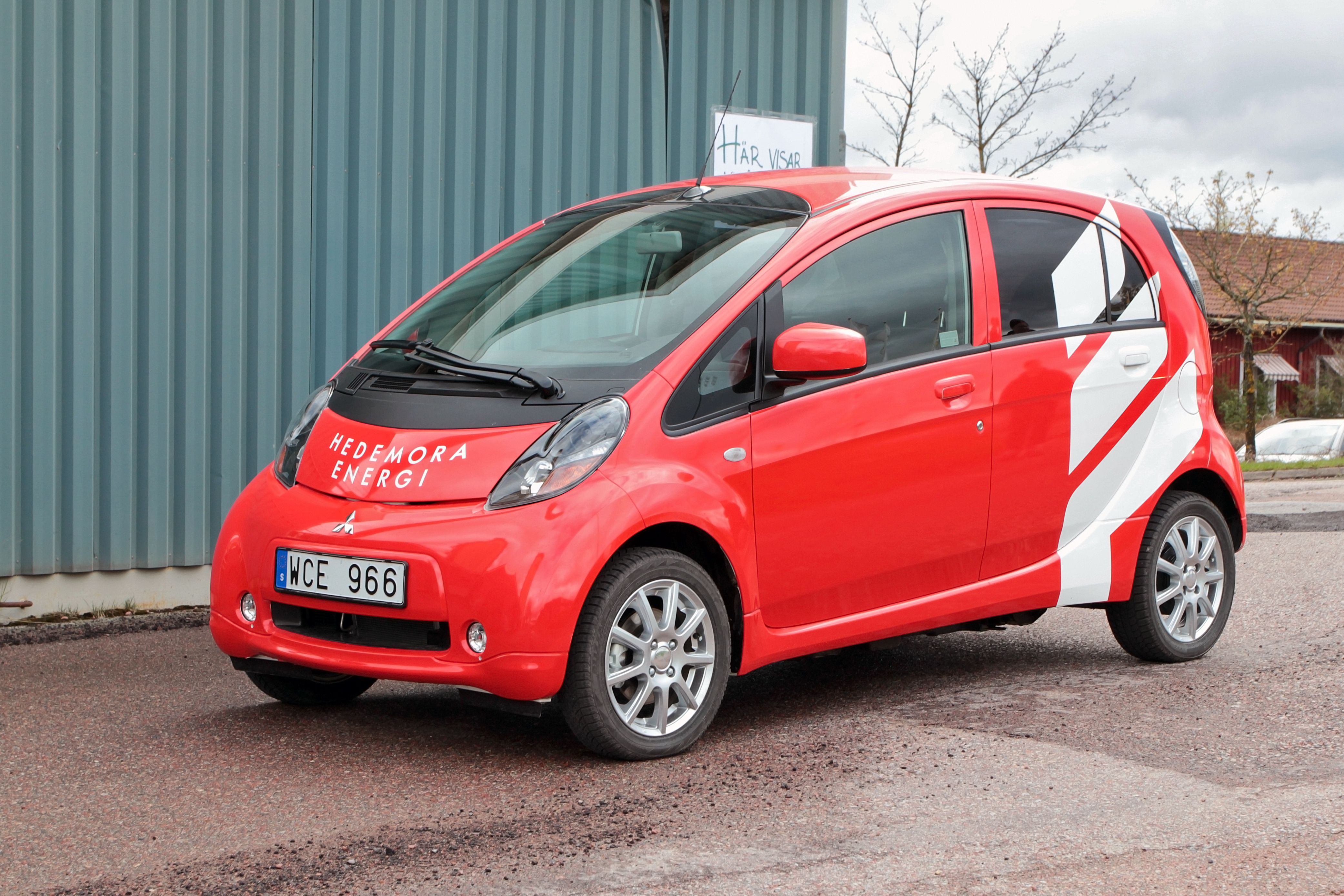 Mitsubishi i-MiEV, owned by Hedemora Energi.